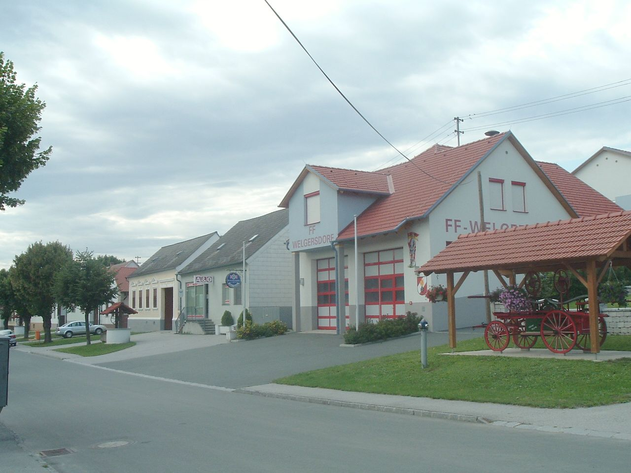 Welgersdorf (Velege)